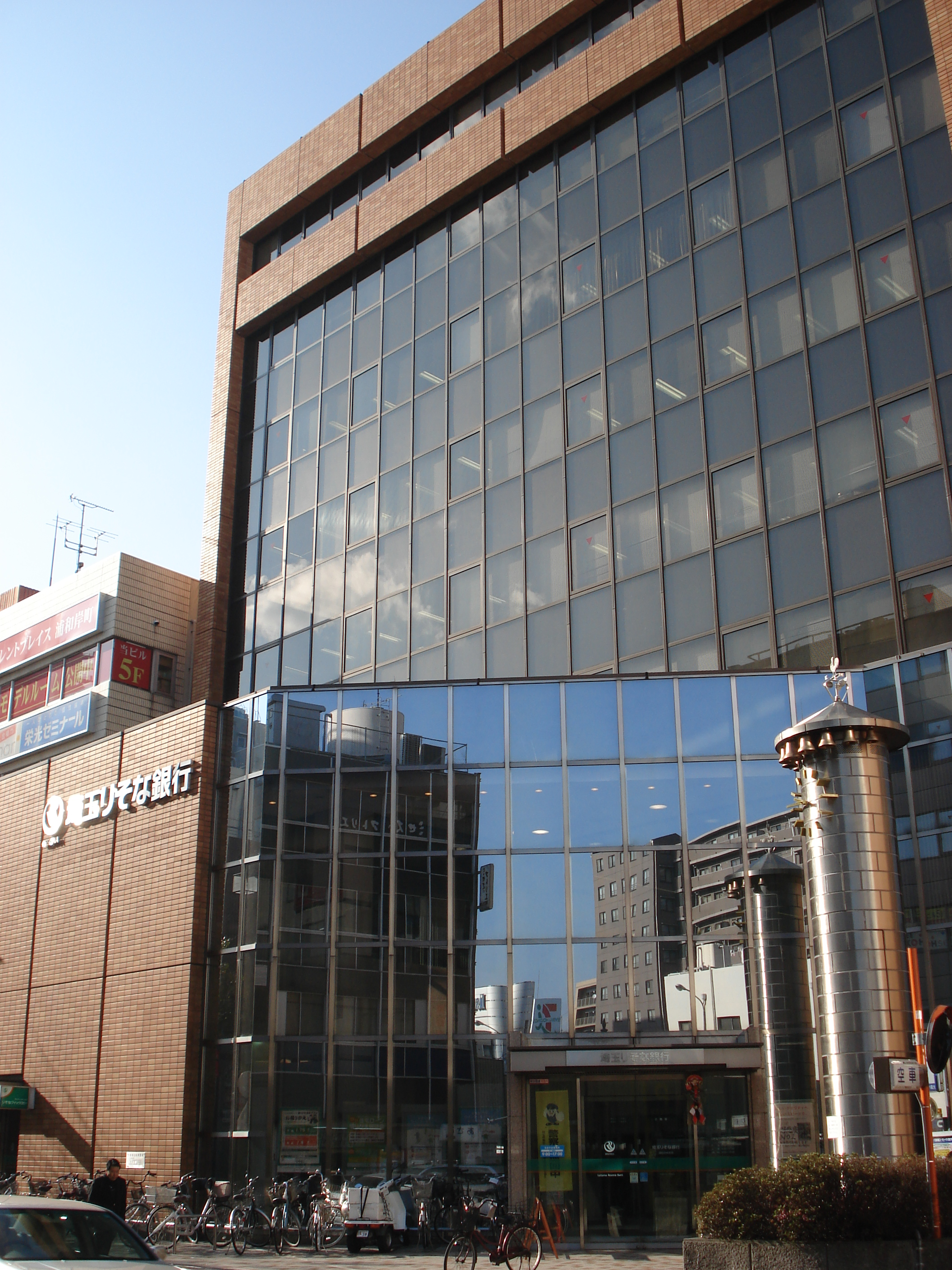 Saitama Resona Bank,Urawa-chuoh Branch.